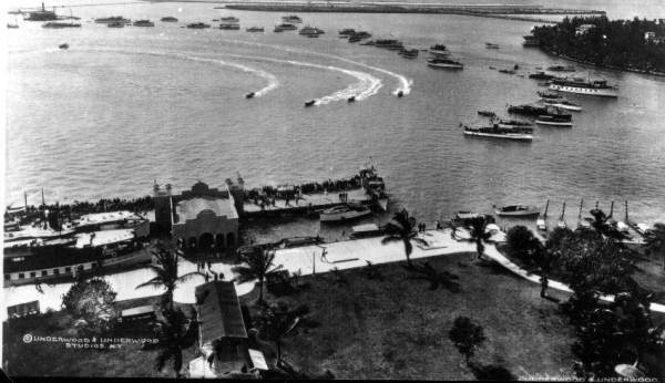 Aerial view of boat races in Biscayne Bay